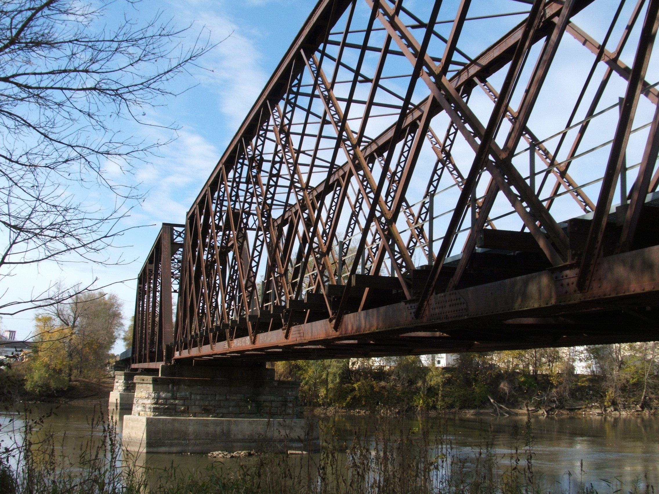 Lattice truss bridge carrying the Hills branch of the CRANDIC Railroad across the Iowa River in Iowa City, Iowa. This was originally the mainline of the Iowa City and Western Railroad, later the Iowa City division of the Burlington Cedar Rapids and Northern Railway and then a minor branch of the Chicago, Rock Island and Pacific Railroad. Built in 1901 according to .